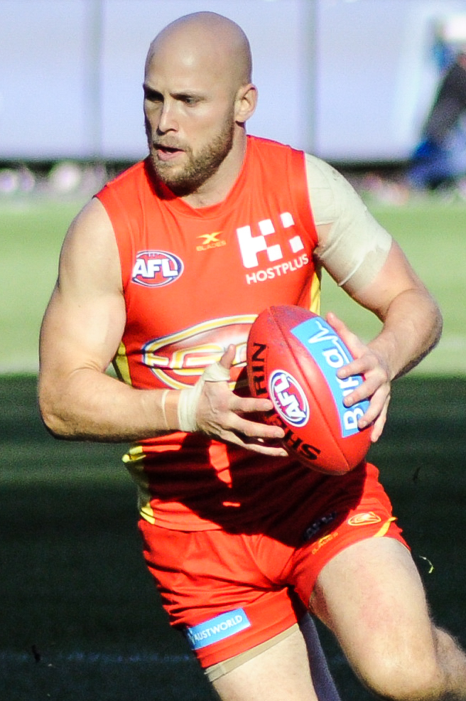 Gary Ablett during the AFL round twelve match between Melbourne and Collingwood on 10 June 2017 at the Melbourne Cricket Ground in Melbourne, Victoria.